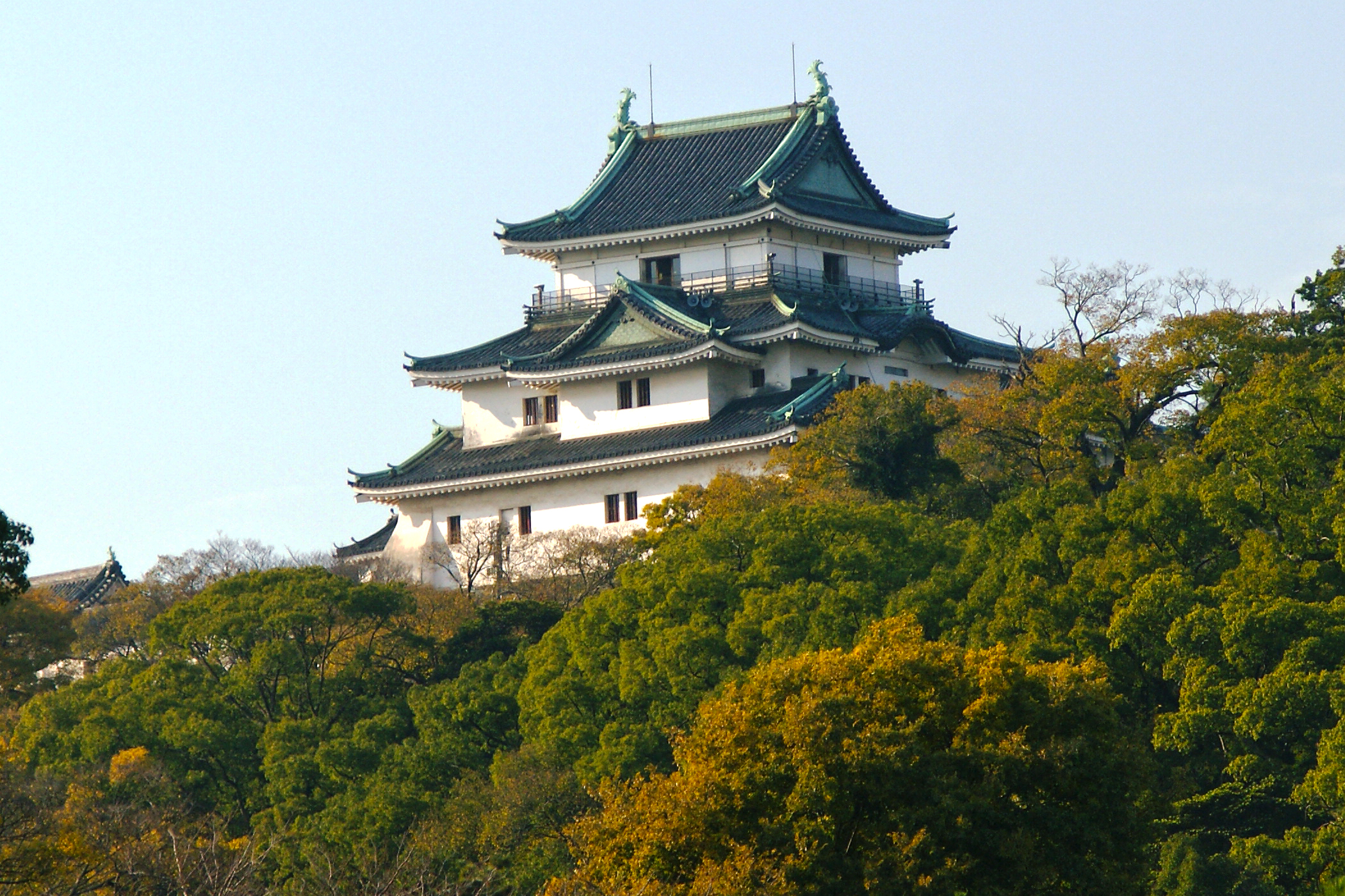 Wakayama Castle, Wakayama, Wakayama prefecture, Japan